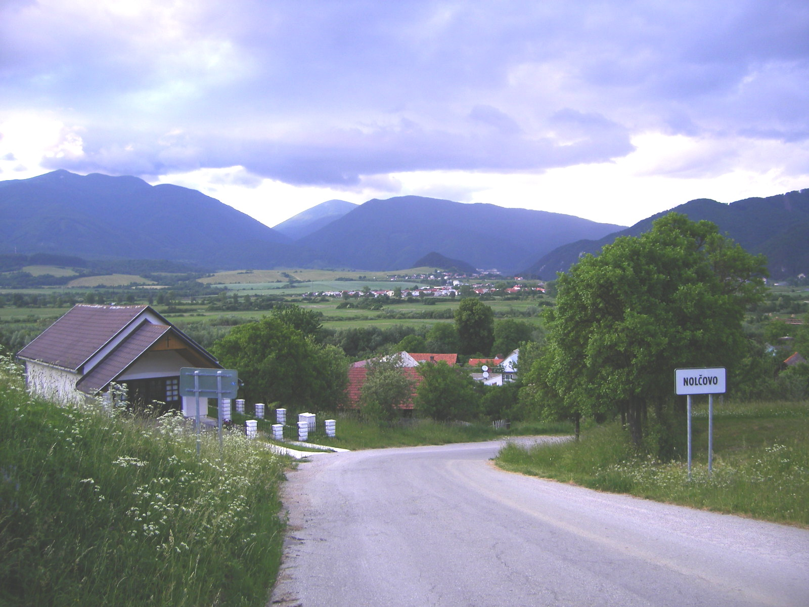 Nolčovo - general view